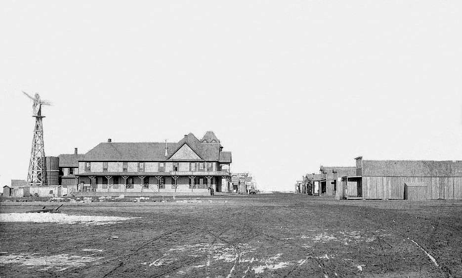 Amarillo, Texas, in its third week of incorporation in 1889.